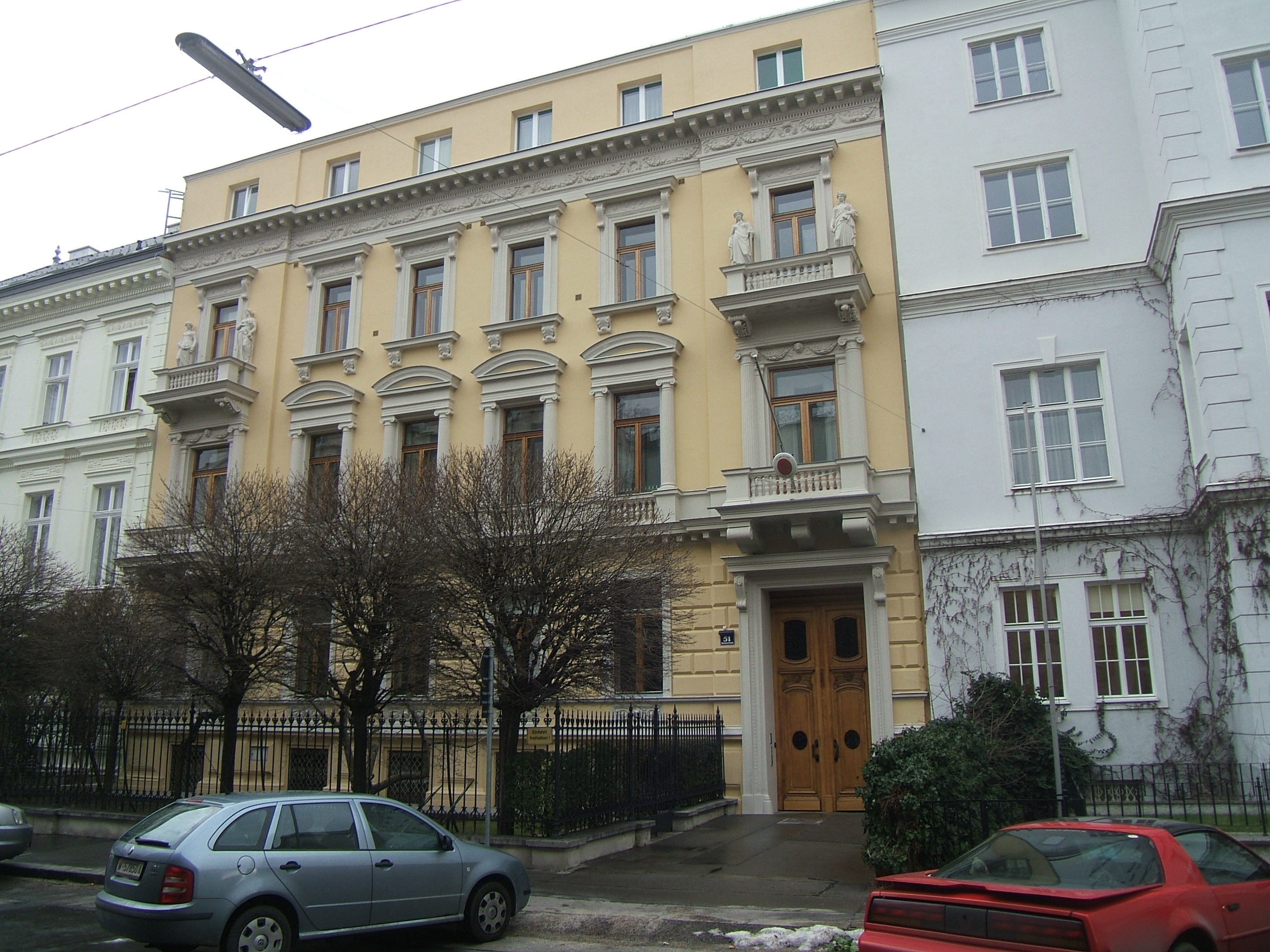 Palais Schlesinger-Ferstl in Vienna 3rd district, Reisnerstraße 51, Former embassy of Finland